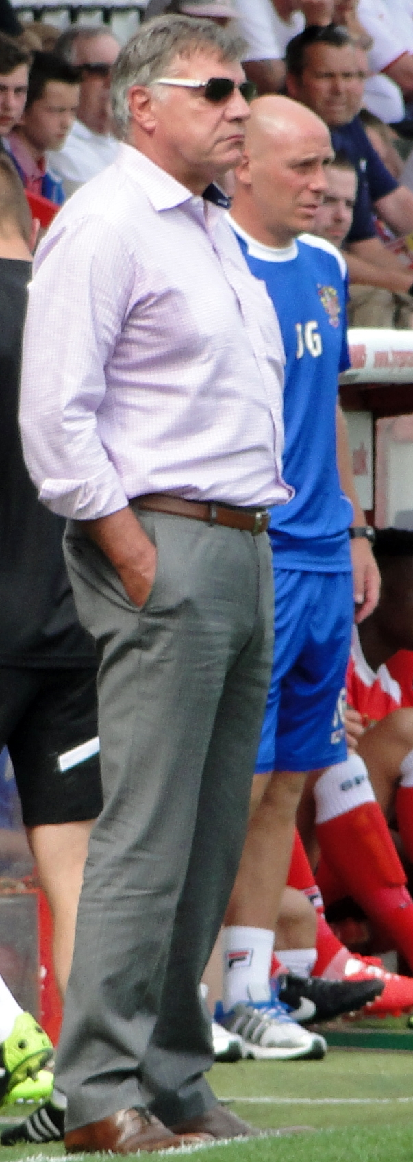 West Ham United manager, Sam Allardyce (front) on the touchline during their friendly game against Stevenage at Broadhall Way, July 2014